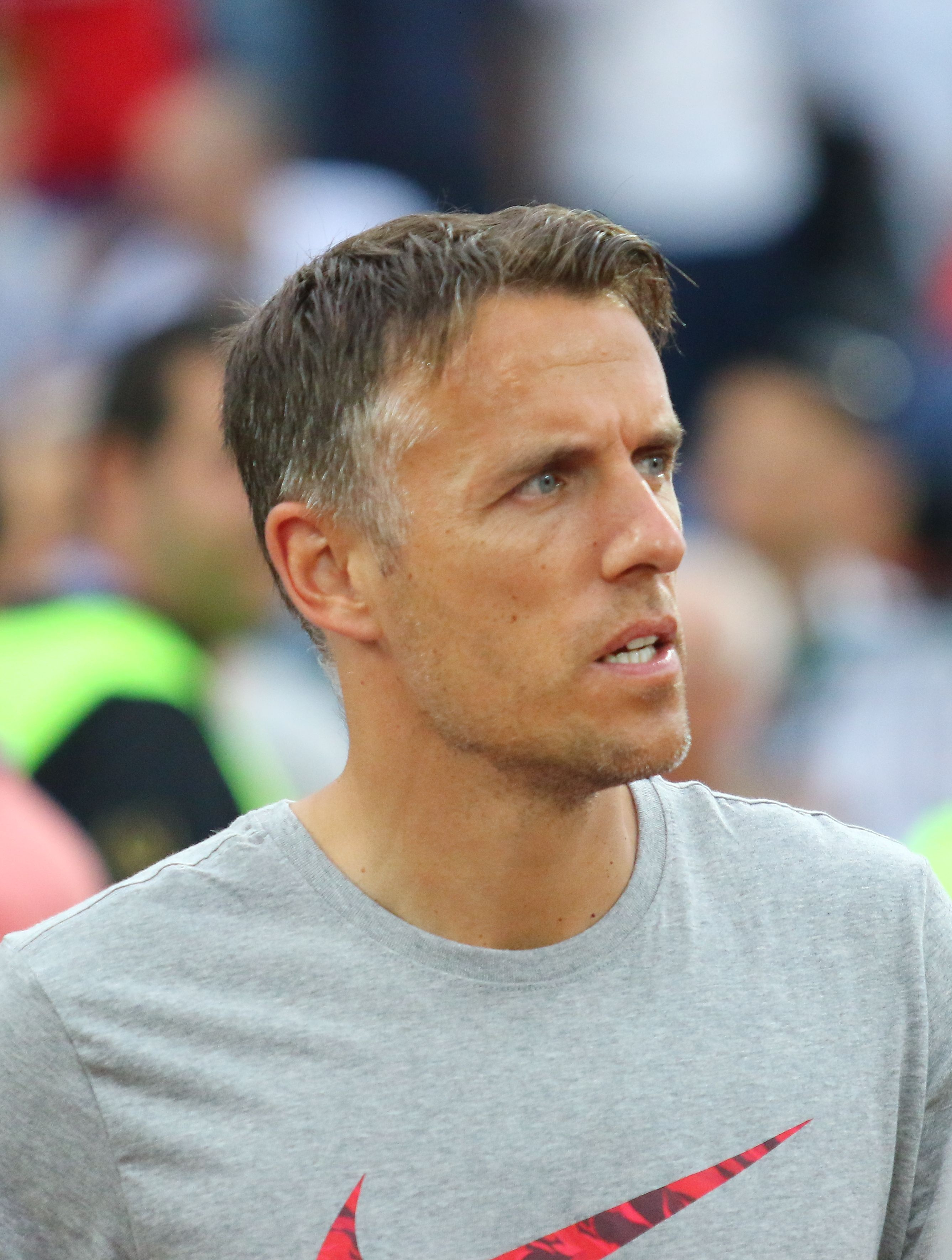 Philip John Neville (born 21 January 1977) is an English former footballer, and currently is the head coach of the England women's team. He is also the co-owner of Salford City along with several of his former Manchester United teammates.